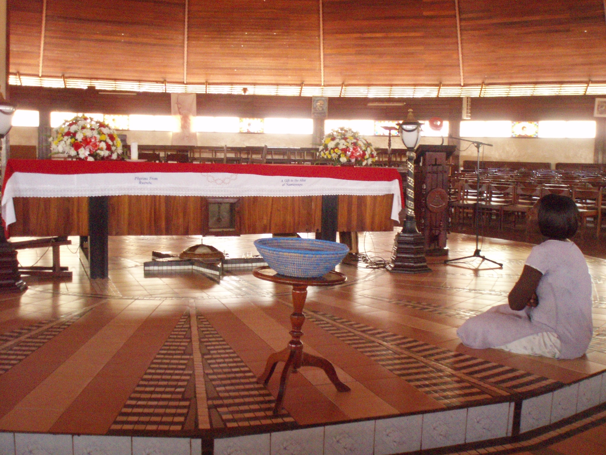 Namugongo Martyrs’ Shrine, Uganda (1973) Architect: Justus Dahinden, Zurich